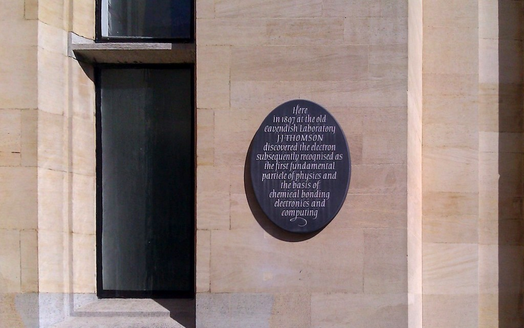 Plaque conmemorating J. J. Thomson's discovery of the electron outside the old Cavendish Laboratory in Cambridge, UK.